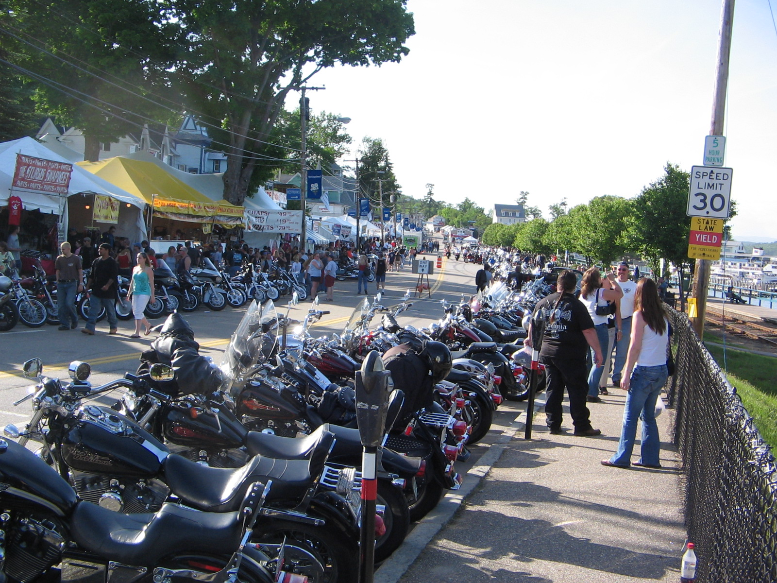 Laconia Bike Week 2007 Line-up